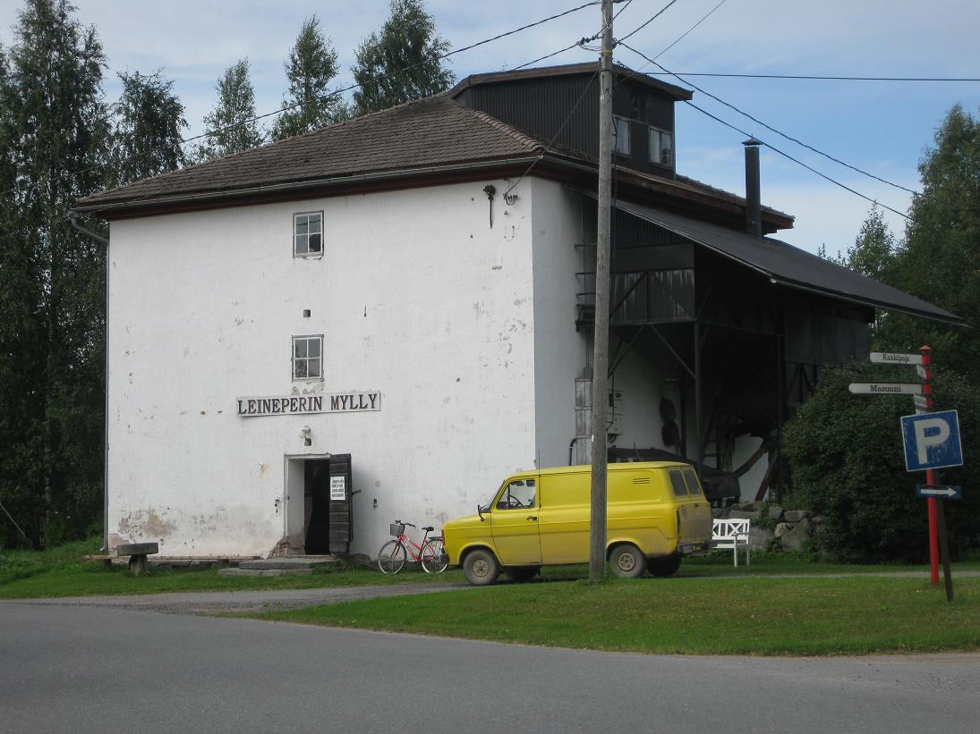 A mill in Leineperi, Ulvila, Finland